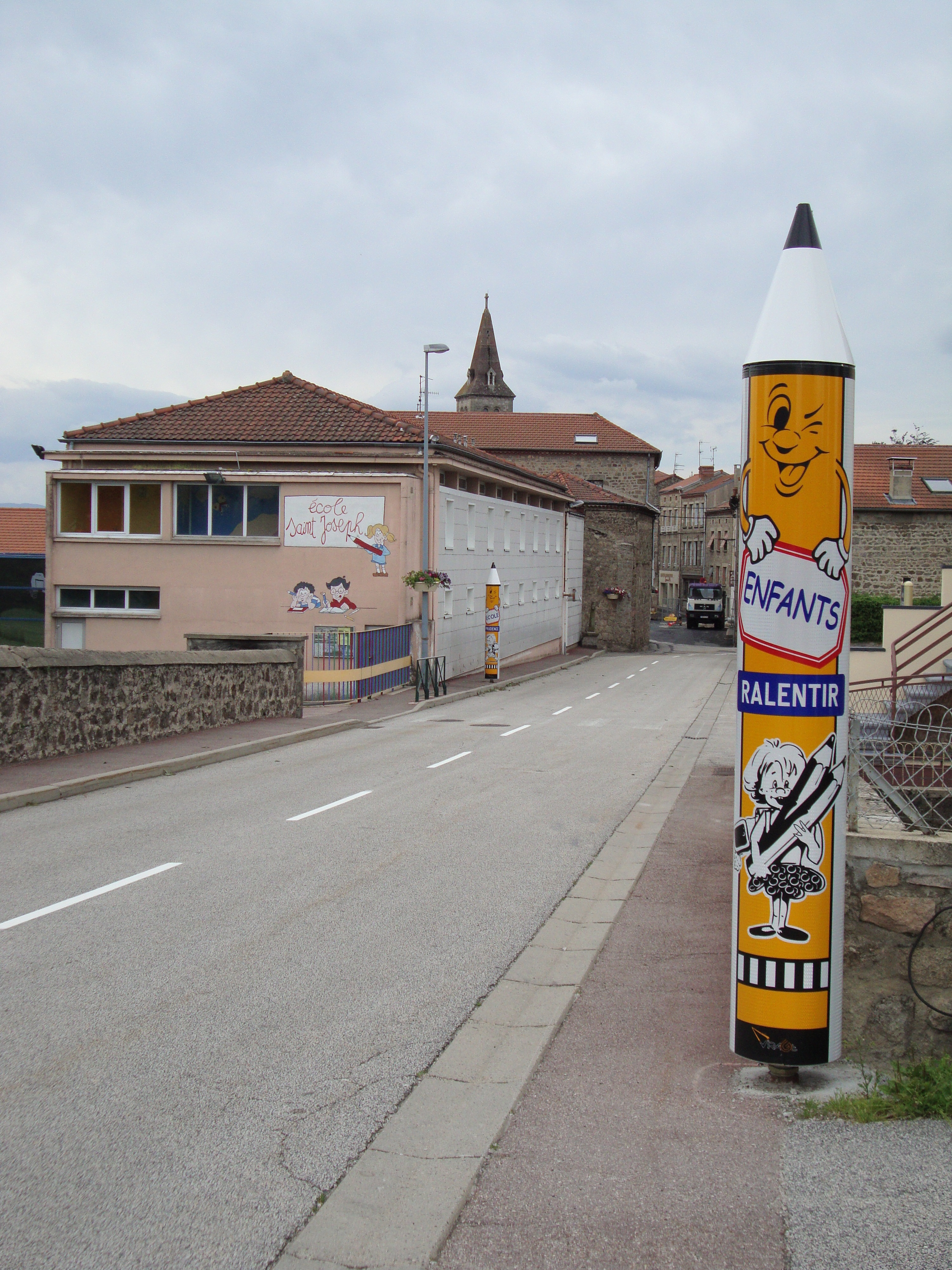 St.Pal-de-Mons (Haute-Loire, Fr) Saint Joseph school.